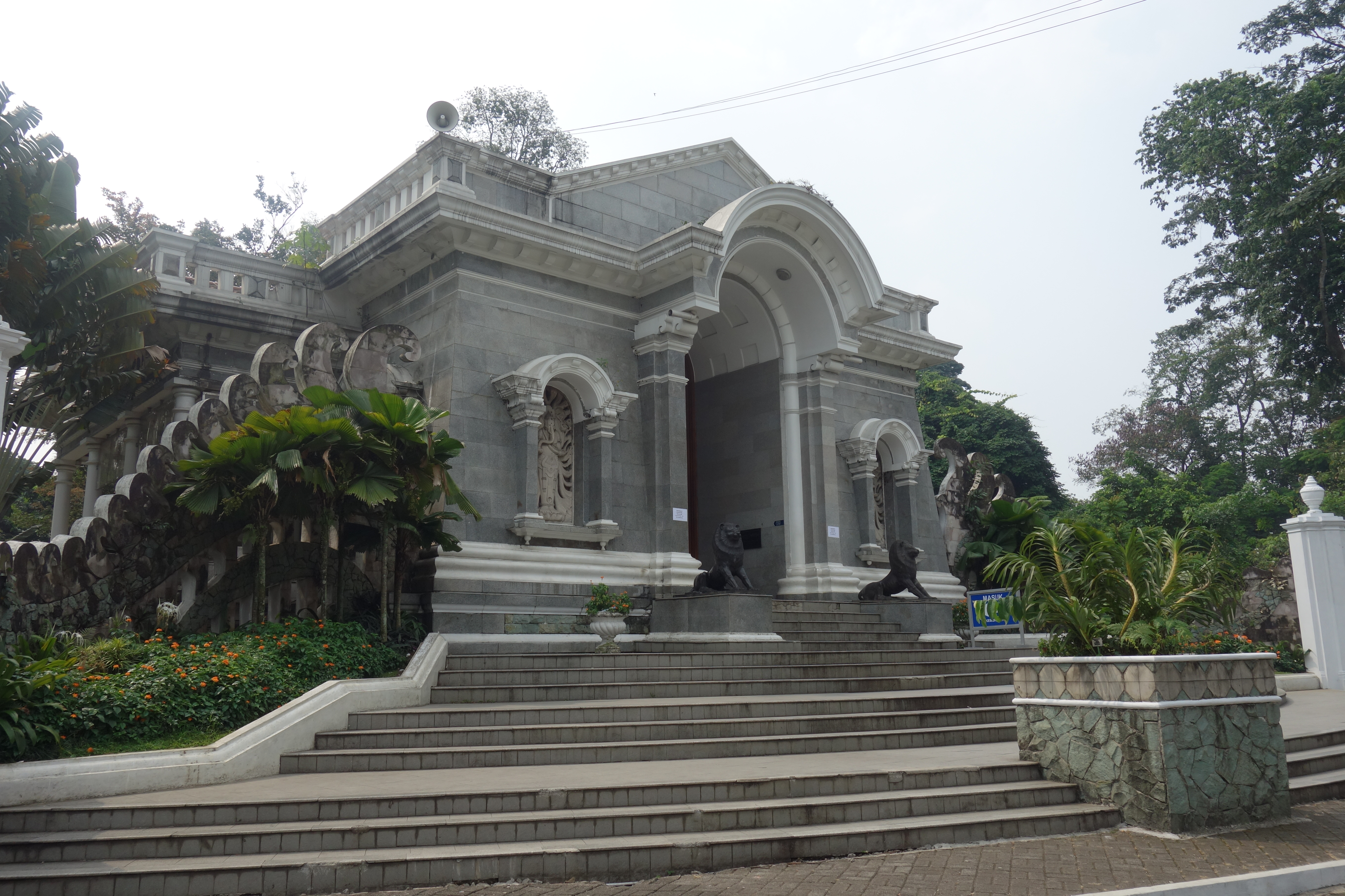 Entrance of Bogor Botanical Gardens, 2018